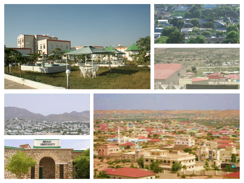 Montage of places in Borama, Somalia.